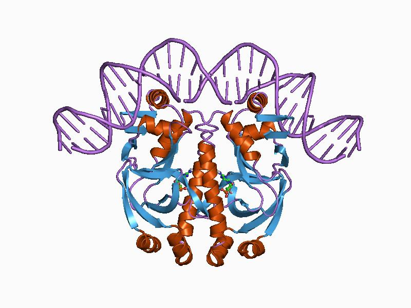 Cartoon representation of the molecular structure of protein registered with 1cgp code.